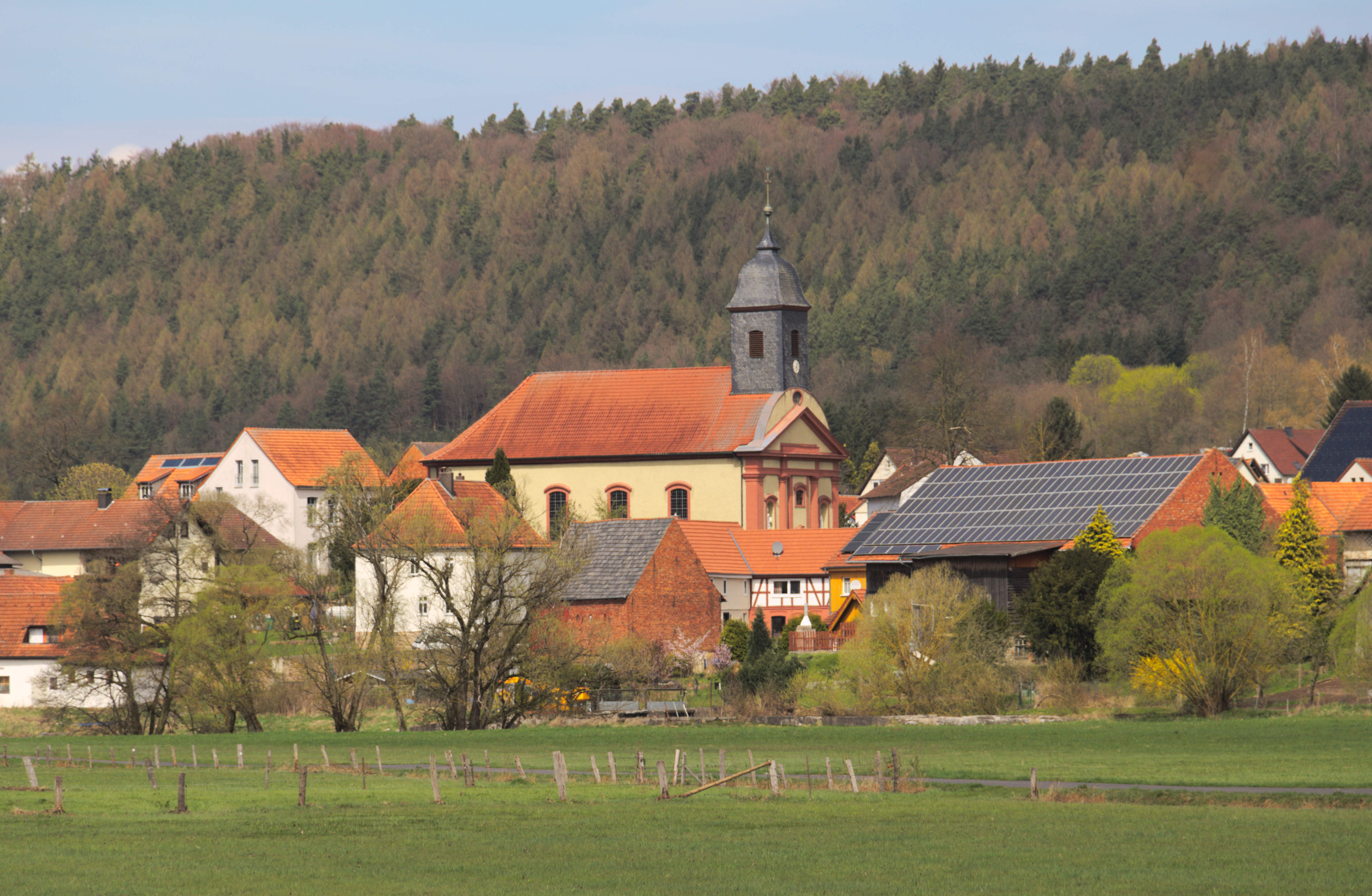 Panoramic View of Kaemmerzell, Fulda, Hesse, Germany